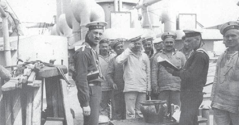 Vodka rations distributed to the sailors of the Imperial Russian Navy ship Rossiya